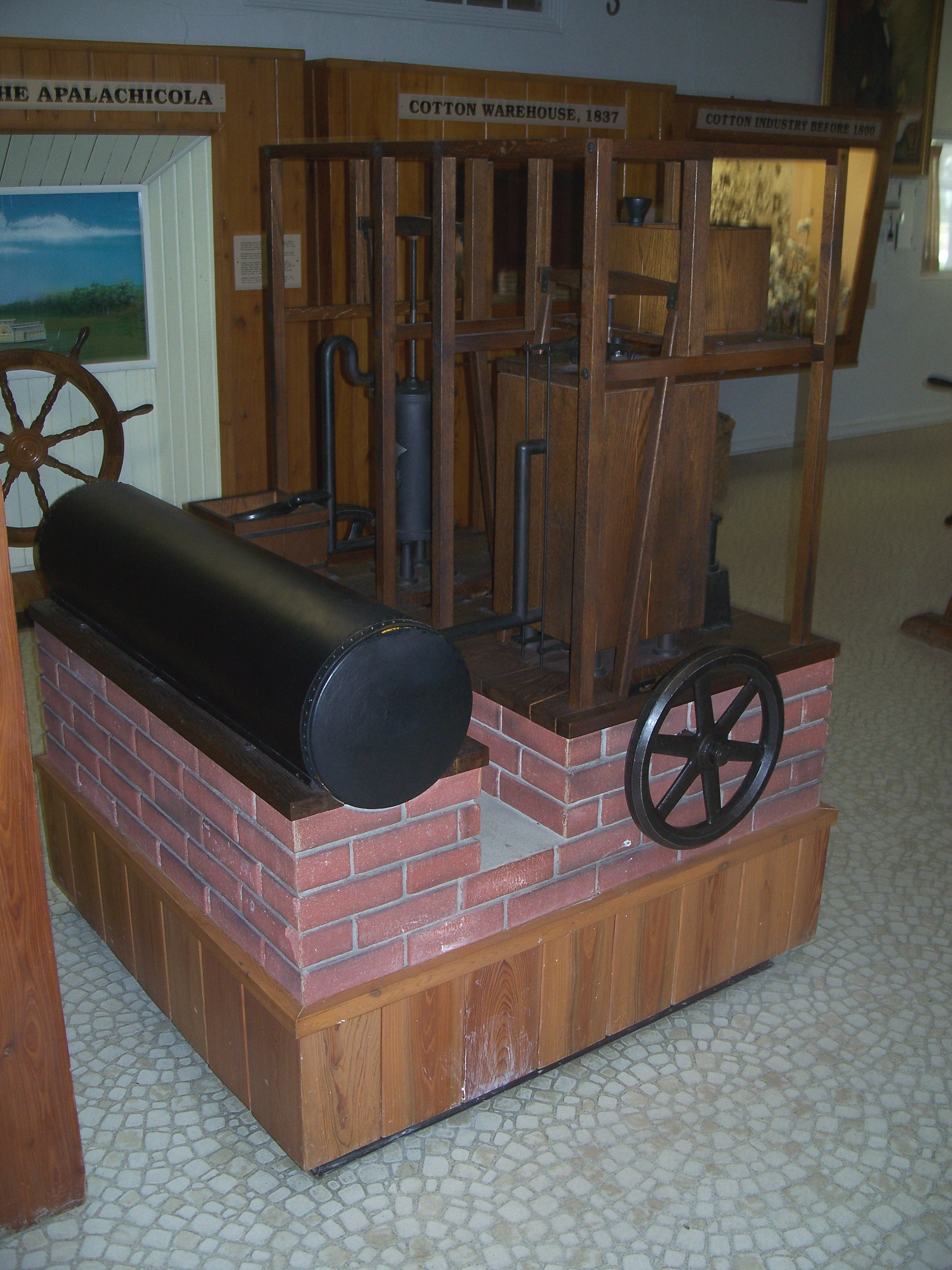 Apalachicola, Florida: John Gorrie State Museum: Three-quarters scale model of Gorrie's ice machine.